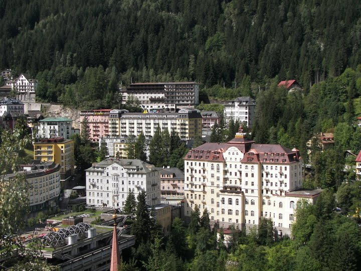 Bad Gastein is a spa town in the Austrian state of Salzburg, situated at the northern rim of the Hohe Tauern national park